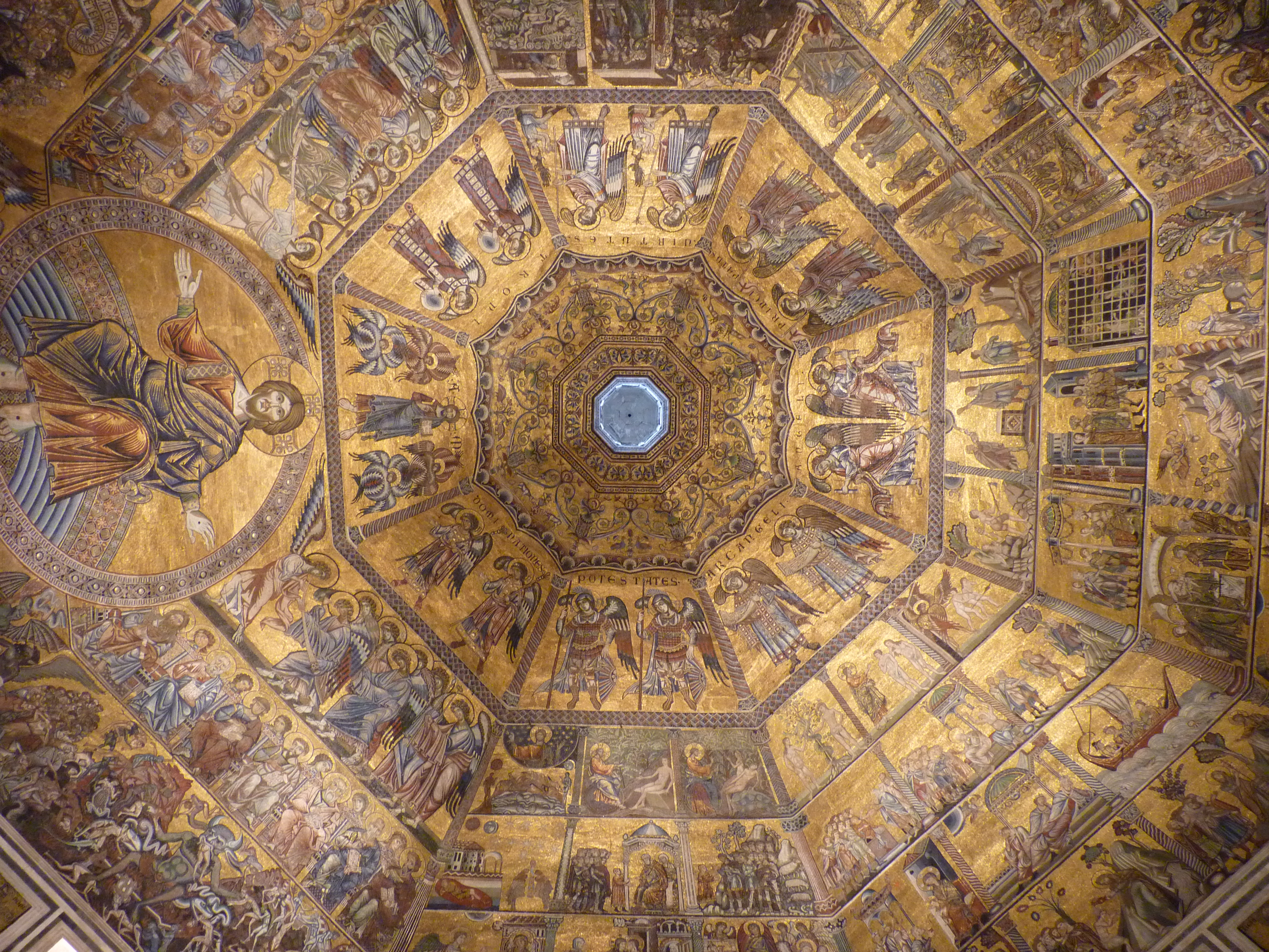 The mosaic ceiling of the Baptistery in Florence.